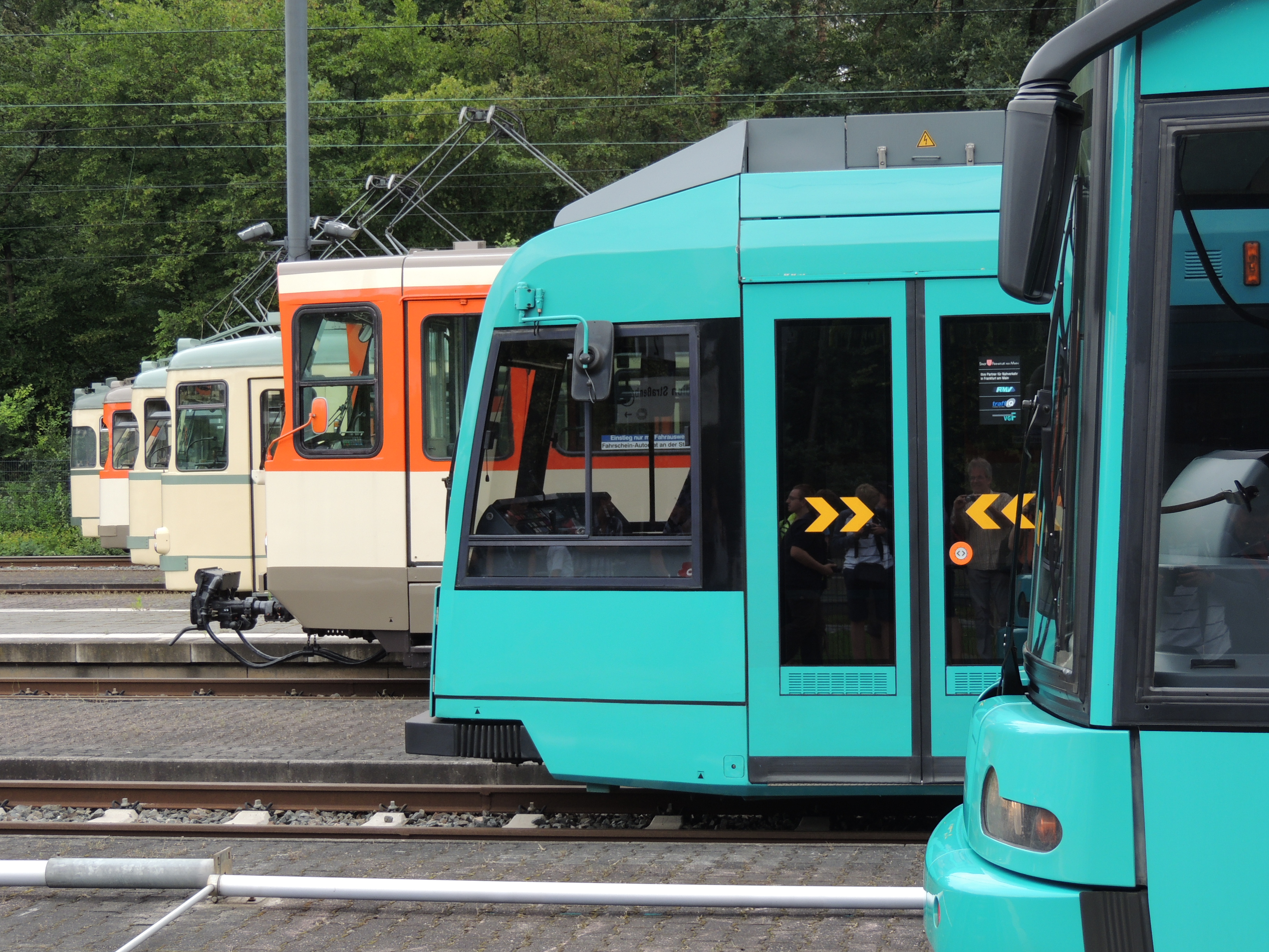 tram type L 124, tram type M 102, tram type N 112, tram type O 110, tram type P 748, tram type R 038 and tram type S 236 of the VGF in Frankfurt am Main at the tram station Stadion of Waldstadion (Commerzbank-Arena) in Frankfurt-Sachsenhausen at a special event